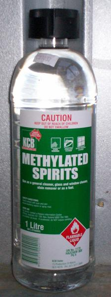 Methylated spirits.